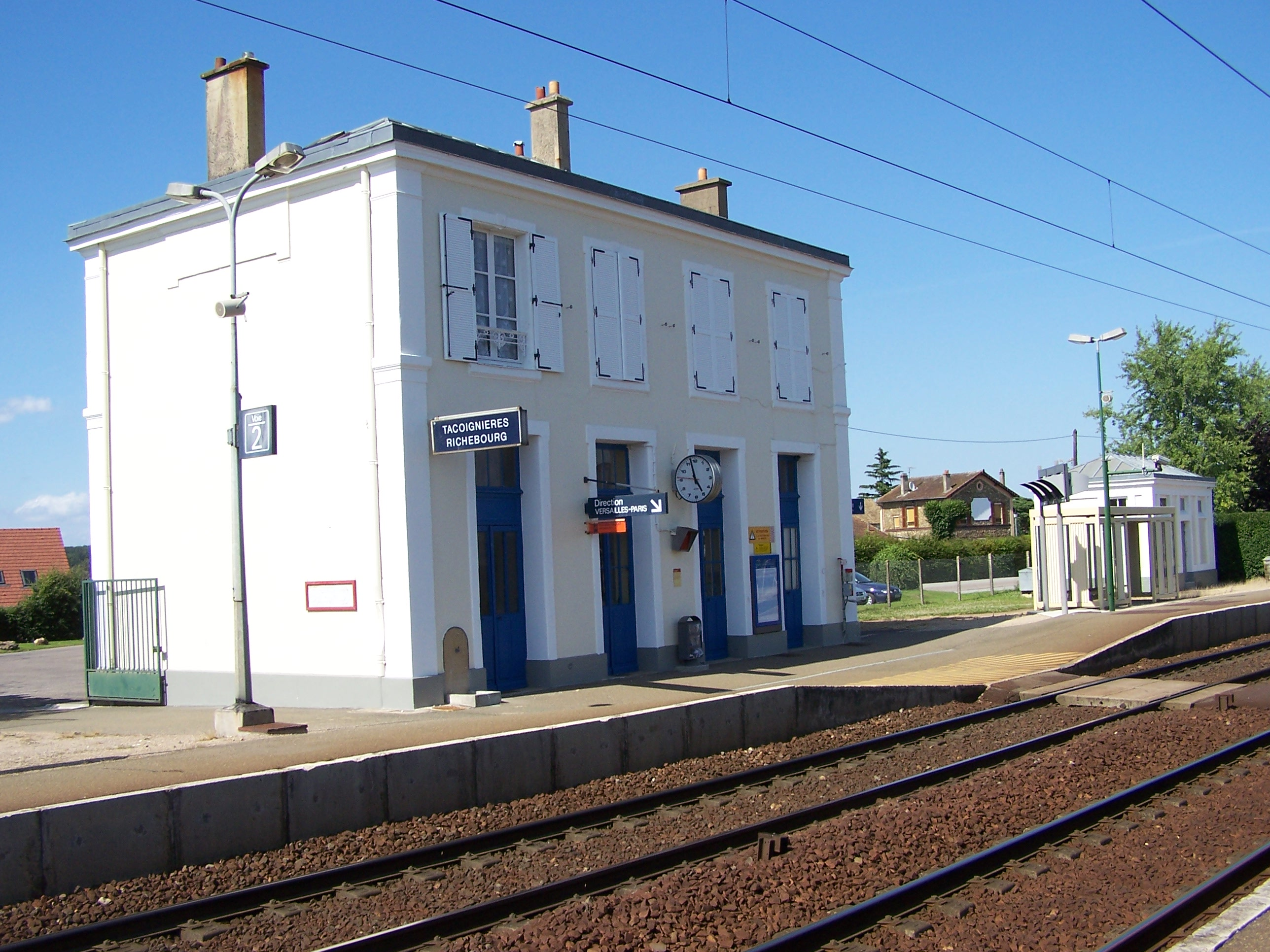 Railway station of Tacoignières (Yvelines, France)